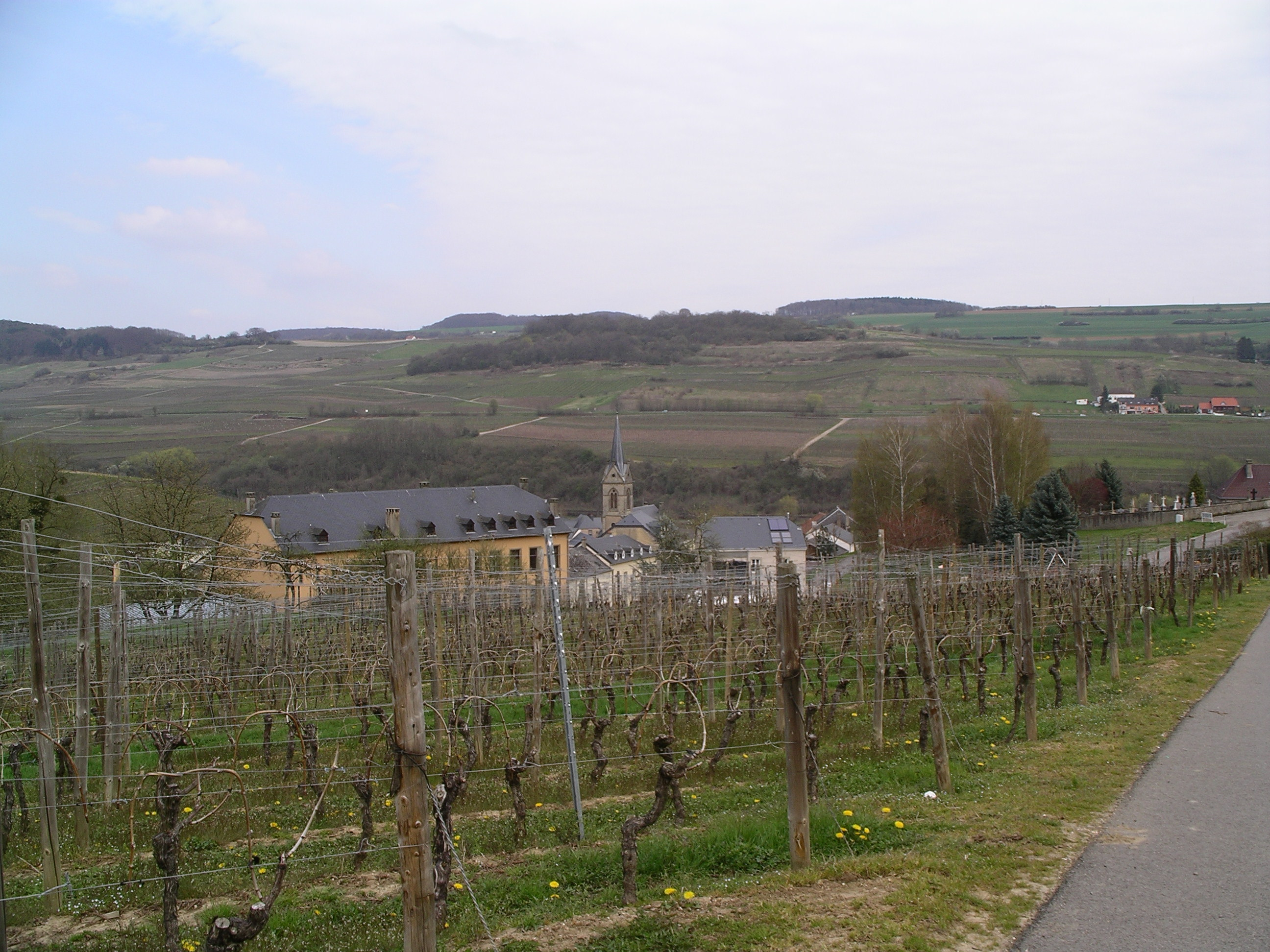 Ahn, village on the Moselle River, Community of Wormeldange, Luxembourg